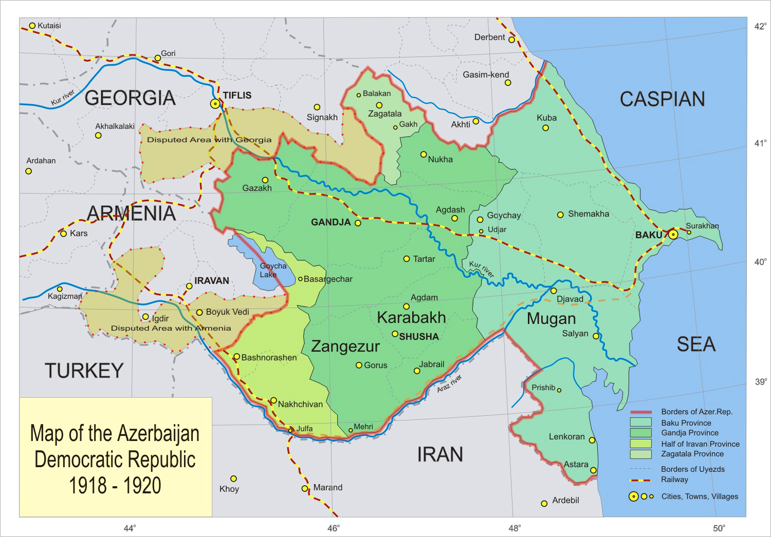 Map of the first Azerbaijan Democratic Republic 1918-1920. Based on the sources listed below: 1.On the Religious Frontier: Tsarist Russia and Islam in the Caucasus. Autor: Firouzeh Mostashari I.B.Tauris, 2006, ISBN 1850437718, 9781850437710 2.The Azerbaijani Turks: Power and Identity Under Russian Rule Autor: Audrey L. Altstadt Hoover Press, 1992, ISBN 0817991824, 9780817991821 3.Mudros to Lausanne Britain's Frontier in West Asia, 1918-1923 Autor: Briton Cooper Busch SUNY Press, 1976, ISBN 0873952650, 9780873952651 4.Copy of Official Map Issued by the Azerbaijan Democtratic Republic in 1919 on Wikipedia 5.The Atlas Of Ethnopolitical History of The Caucasus (1774-2004) Autor:Arthur Tsutsiev “Evropa”, Moscow, 2006, ISBN 5-9739-0045-2